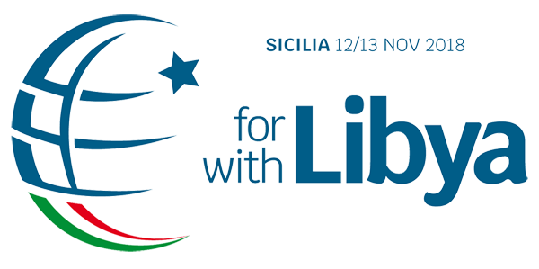 The "for/with Libya" logo graphically represents a world that wants to side with Libya, taking the position of those who do not want to discuss their problems only, but listen to them to find a solution. A delicate intersection of lines gives life to a stylized hemisphere depicted in the act of opening up to two important prepositions: for and with Libya, in line with the values ​​of openness and dialogue of the Conference. The half-moon on one side and the star on the other represent an image with a double face: wherever there is a world, Libya is an integral part of it. It is therefore no longer a State under international attention and only an subject for discussion, but a participating reality. The chromatic elements of the Italian flag are placed on the lower part of the half-moon/hemisphere to underline the role of Italy in the conception and promotion of the event in Palermo. The hemisphere represented in the logo is not an ordinary hemisphere. It becomes much more in the very act of extending itself to a part of it.